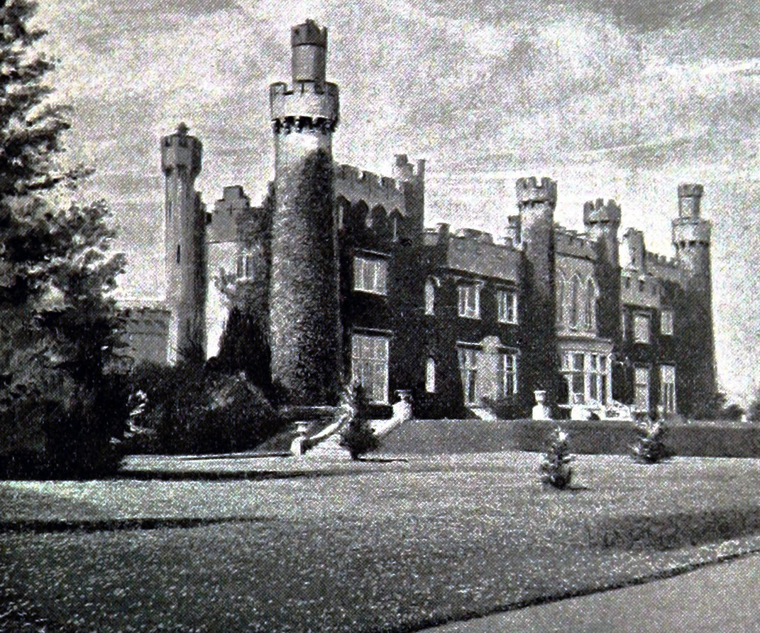 Image taken from: Title: "Picturesque Dublin, old and new ... With ninety-one illustrations by Rose Barton, etc" Author: GERARD, Frances A. - pseud. [i.e. Miss Geraldine Fitzgerald.] Shelfmark: "British Library HMNTS 10390.g.24." Page: 311 Place of Publishing: London Date of Publishing: 1898 Publisher: Hutchinson & Co. Issuance: monographic Identifier: 001394620 Explore: Find this item in the British Library catalogue, 'Explore'. Open the page in the British Library's itemViewer (page image 311) .